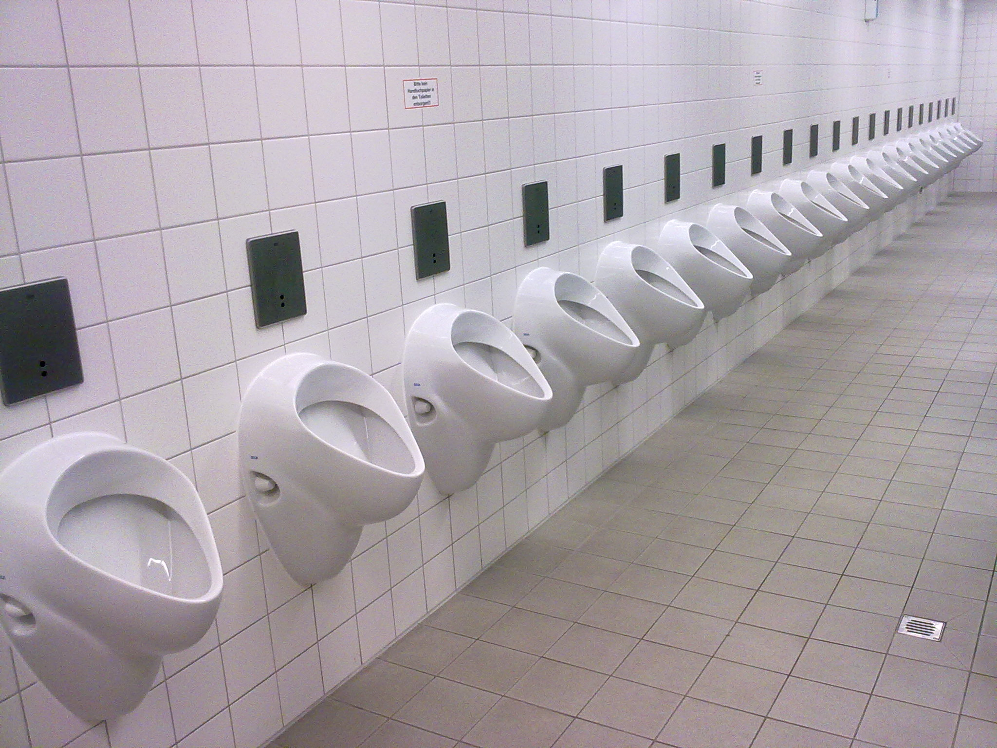 A rather long row of urinals in a toilet.